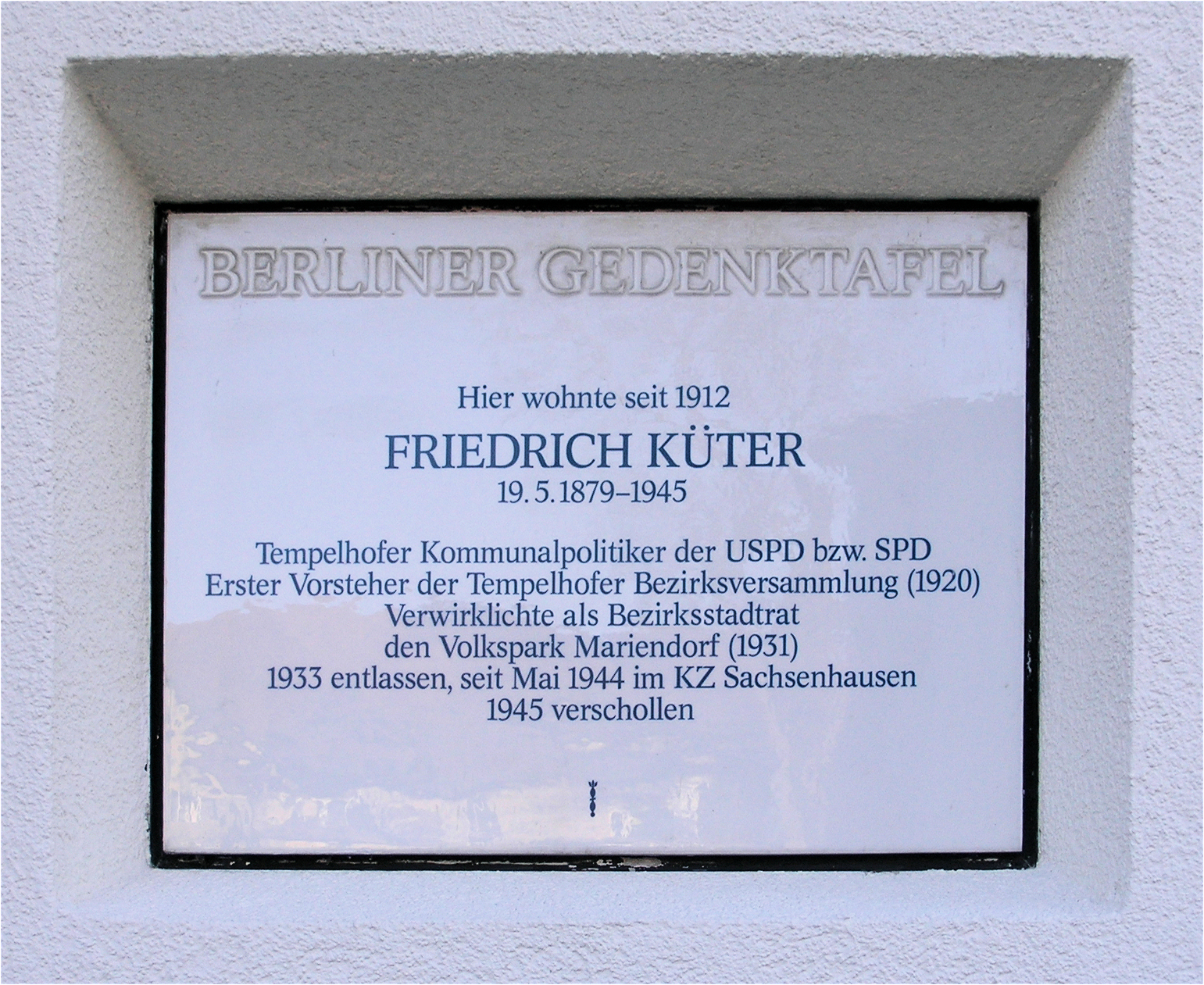 Berlin memorial plaque, Friedrich Küter, Alt-Mariendorf 53, Berlin-Mariendorf, Germany